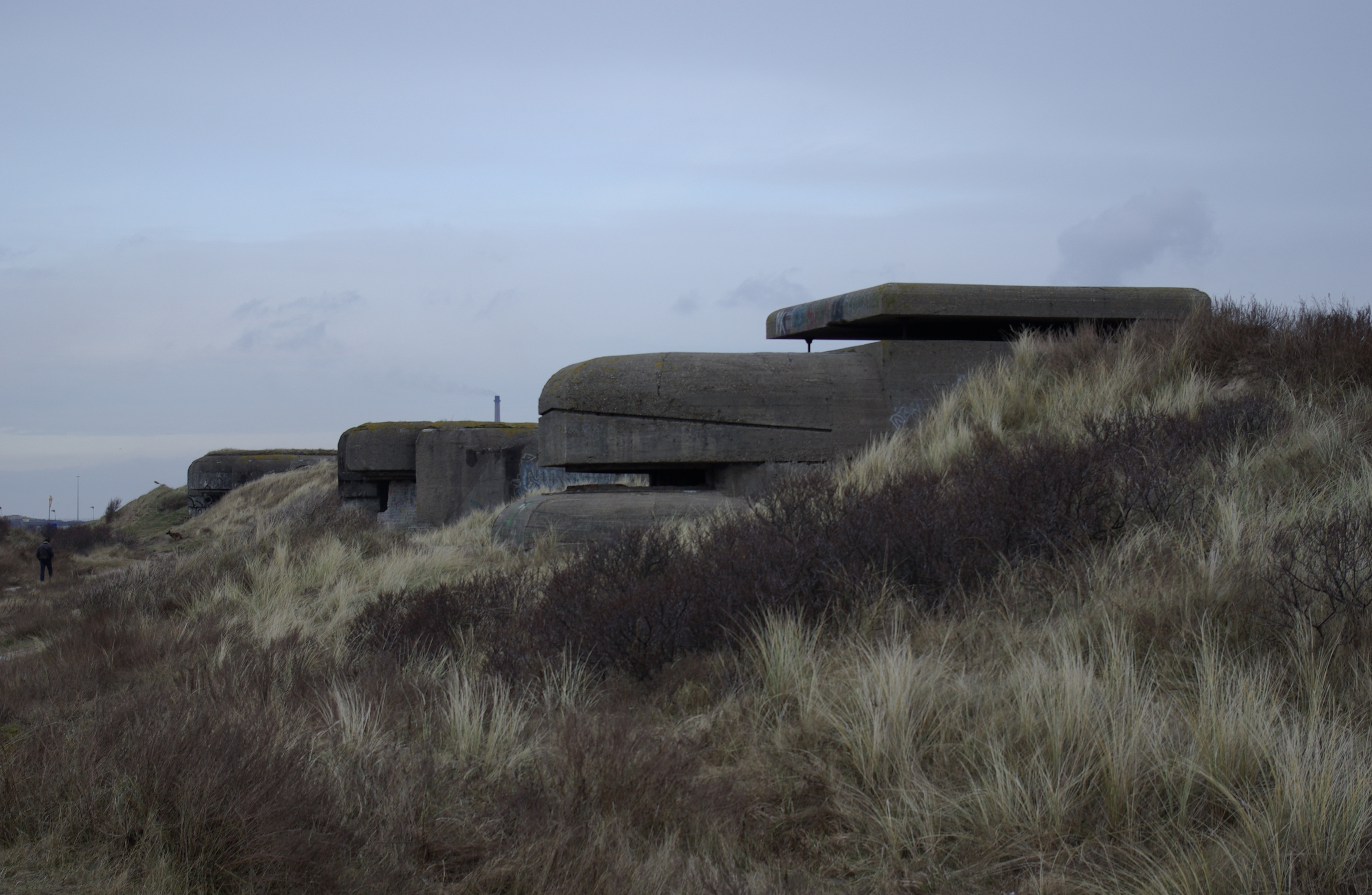 Atlantic Wall, IJmuiden, M.K.B. Heeerenduin (Coastal Battery Heerenduin), W.N. 81 (Widerstandsnest 81)